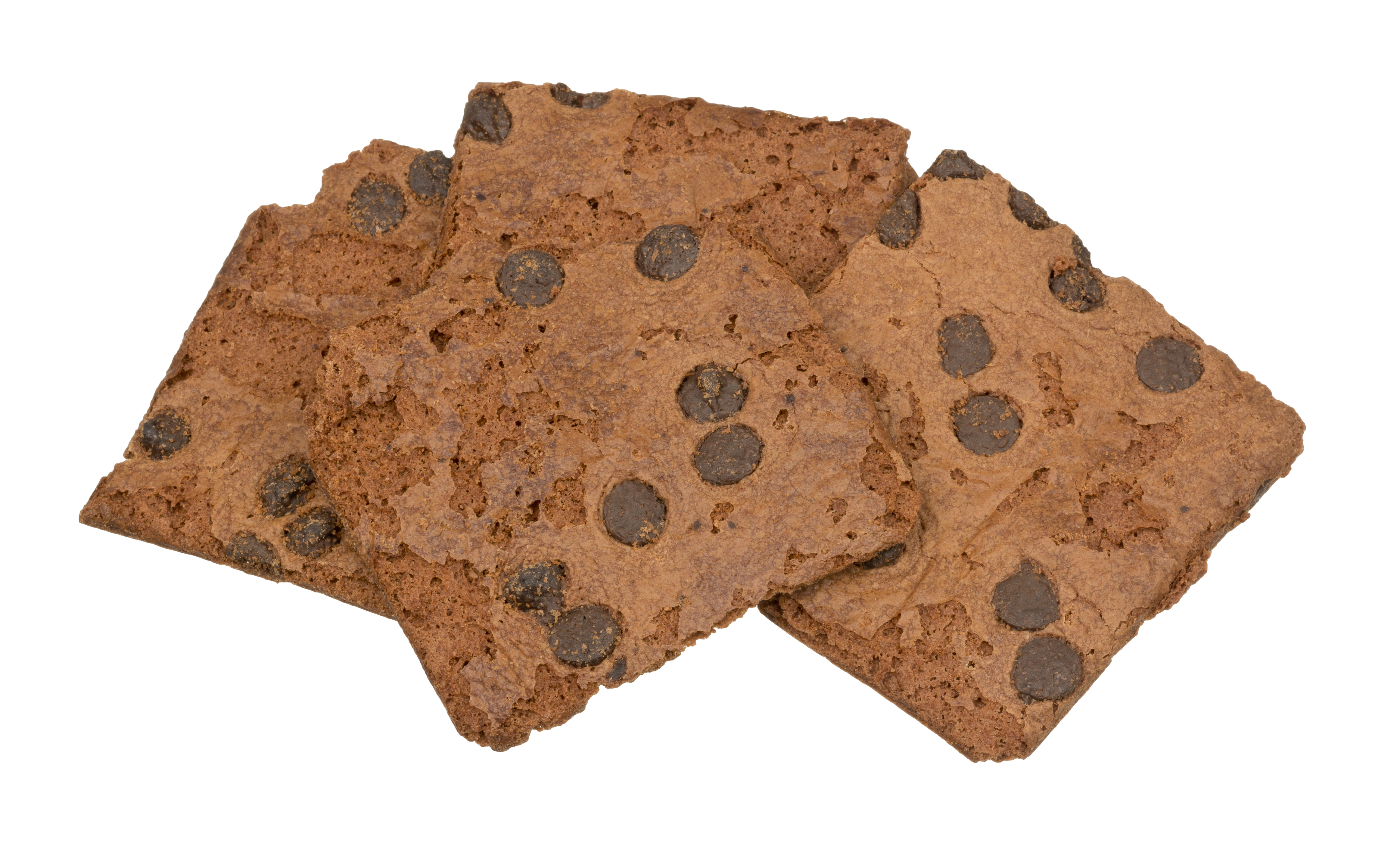 Some pieces of Brownie Brittle, a snack food made by Sheila G. Brands, which is different than regular brownies due to being thin, dry and crispy. Sold in North America and available in many grocery stores.